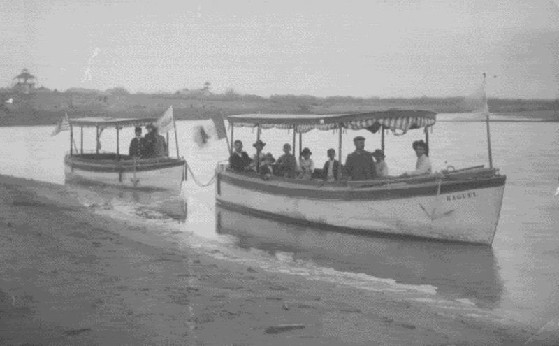 Ferry between Rio Grande City and Camargo just after the turn of the century